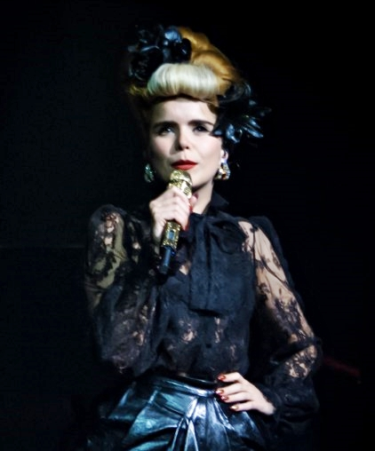 Paloma Faith performing in Nottingham, January 25, 2013.